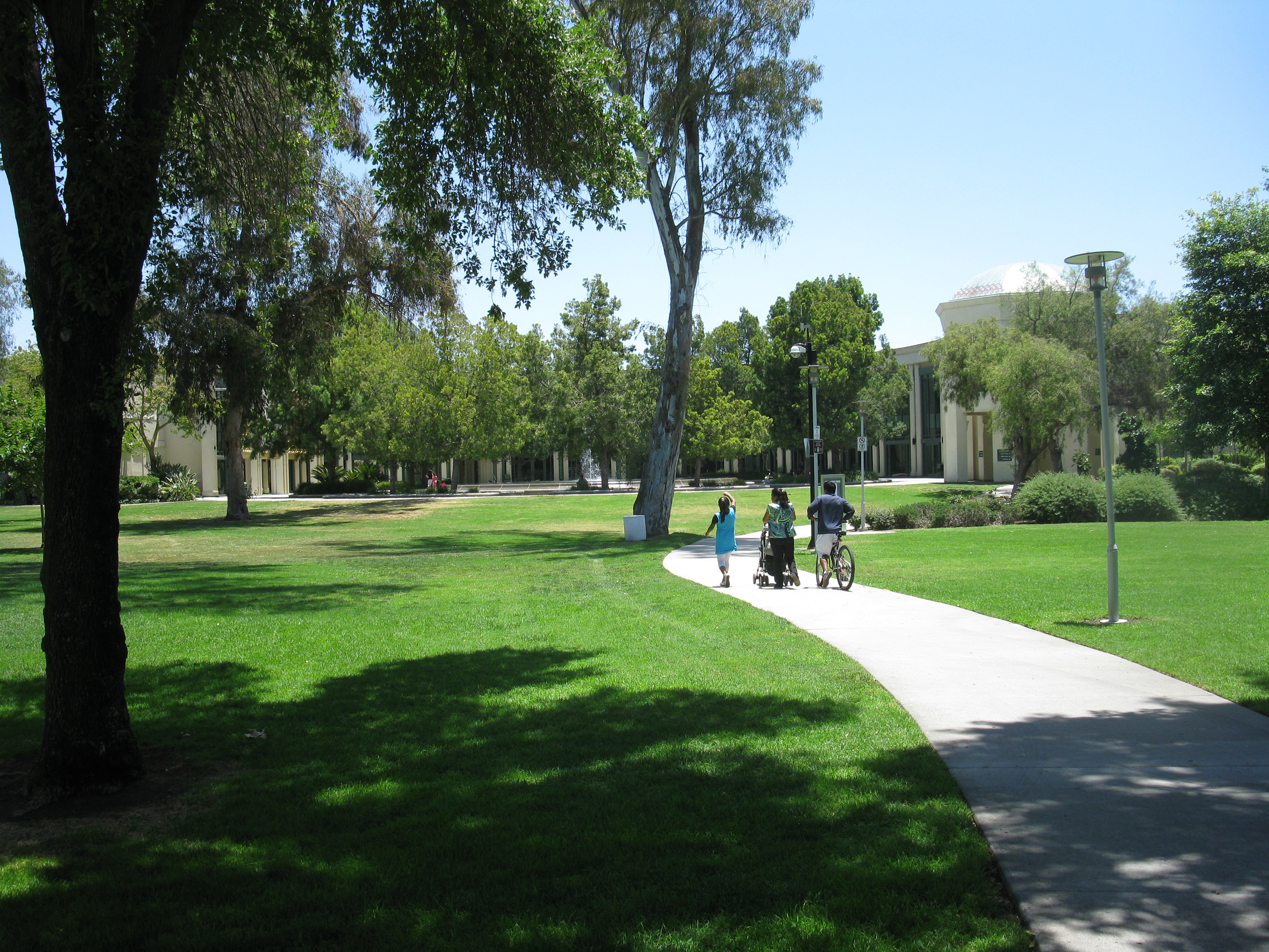 Photo taken by Chris Doig on June 13, 2010.